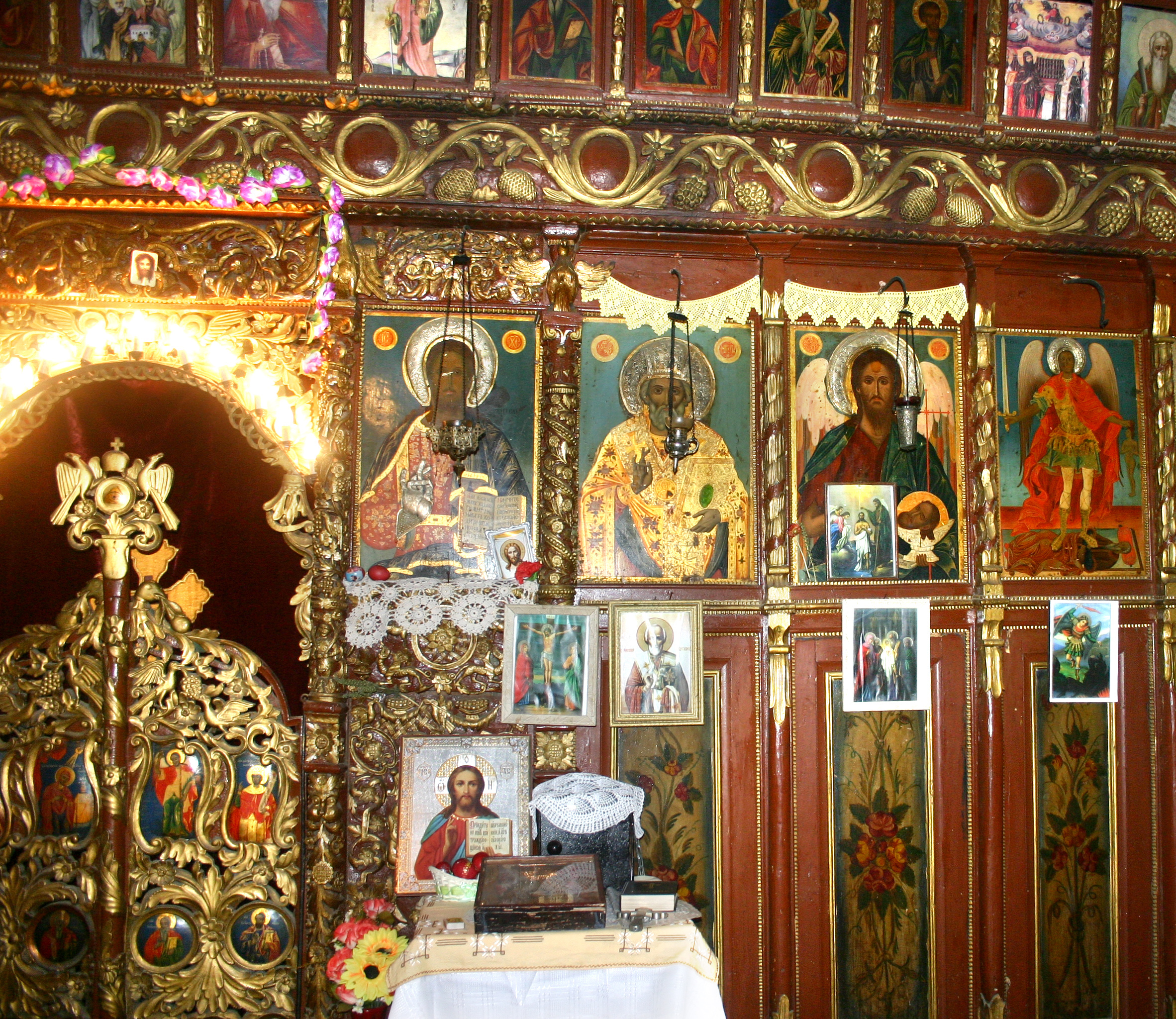 This photo is provided by the Historical Museum in Dupnitsa and is included in the album "Dupnitsa through the centuries" („Дупница през вековете“). Dupnitsa Municipality, Historical Museum - Dupnitsa. ISBN 978-954-8187-89-3.